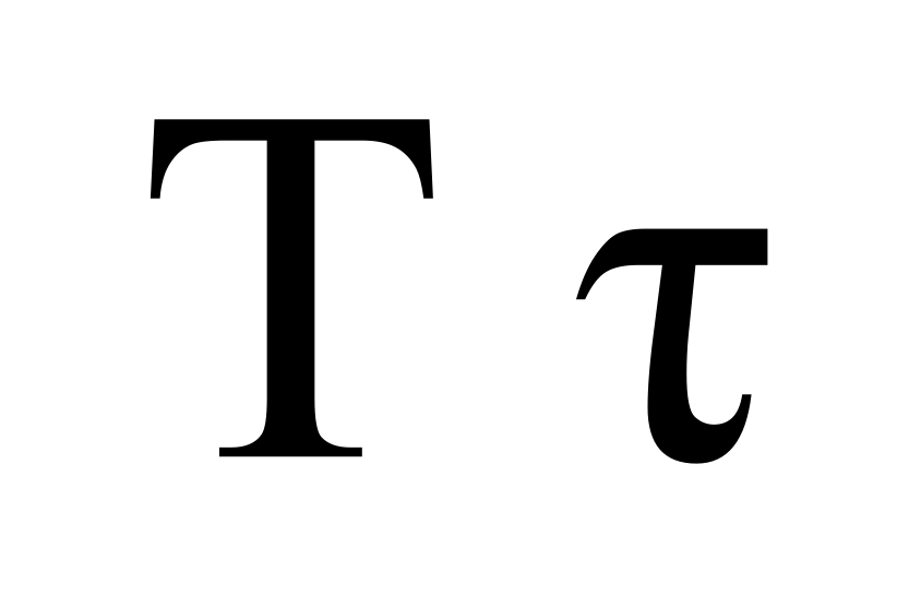 greek letter tau